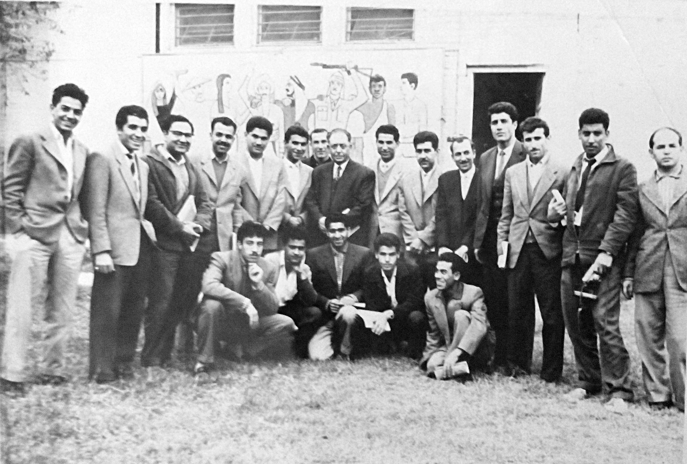 Mahmood Shukri Almufti (1909 - 1972) in Baghdad 1960